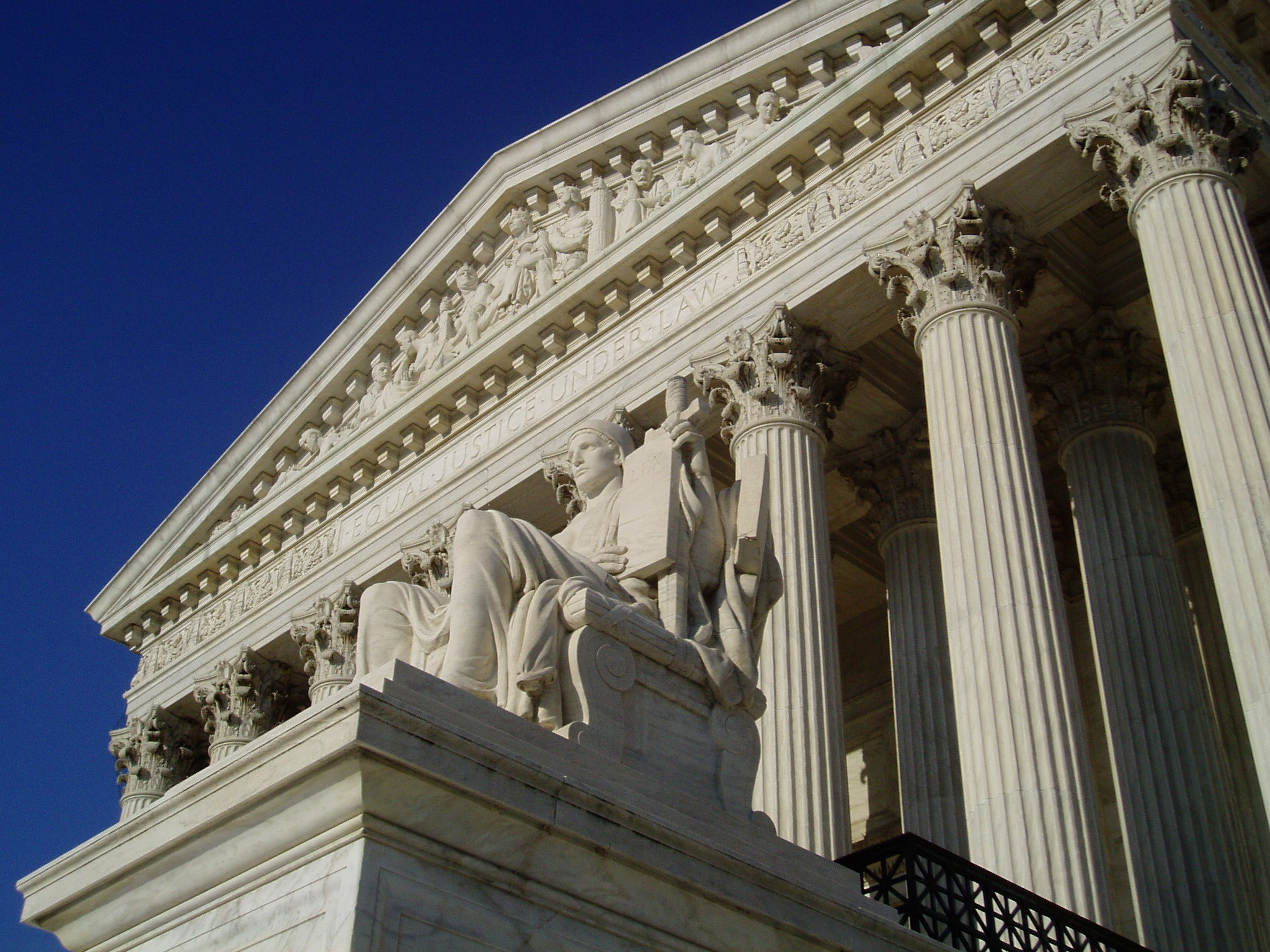 James Earle Fraser's statue The Authority of Law, which sits on the west side of the United States Supreme Court building, on the south side of the main entrance stairs.